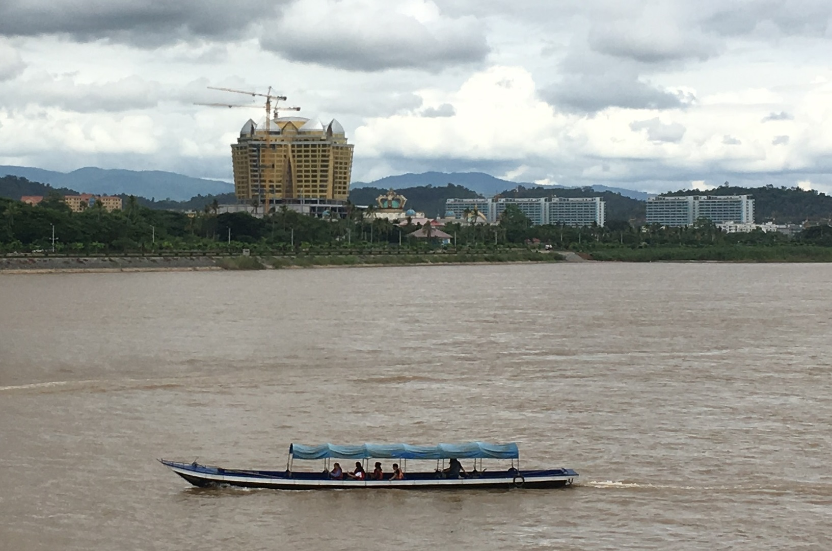 View of the Golden Triangle Special Economic Zone in Bokeo Province, Laos, from Ban Sop Ruak in Thailand.